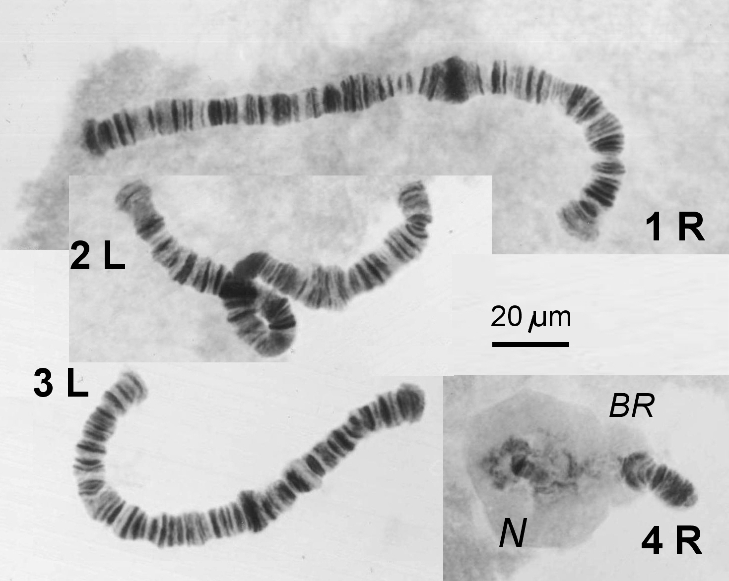 Polytene chromosomes in a highly endoreplicated cell nucleus from larval salivary gland of Chironomus riparius Meigen 1804, syn. C. thummi Kieffer 1911. L = left chromosomal arm, R = right arm, BR = Balbiani ring, N = nucleolus. Figure was mounted on 2013-11-04